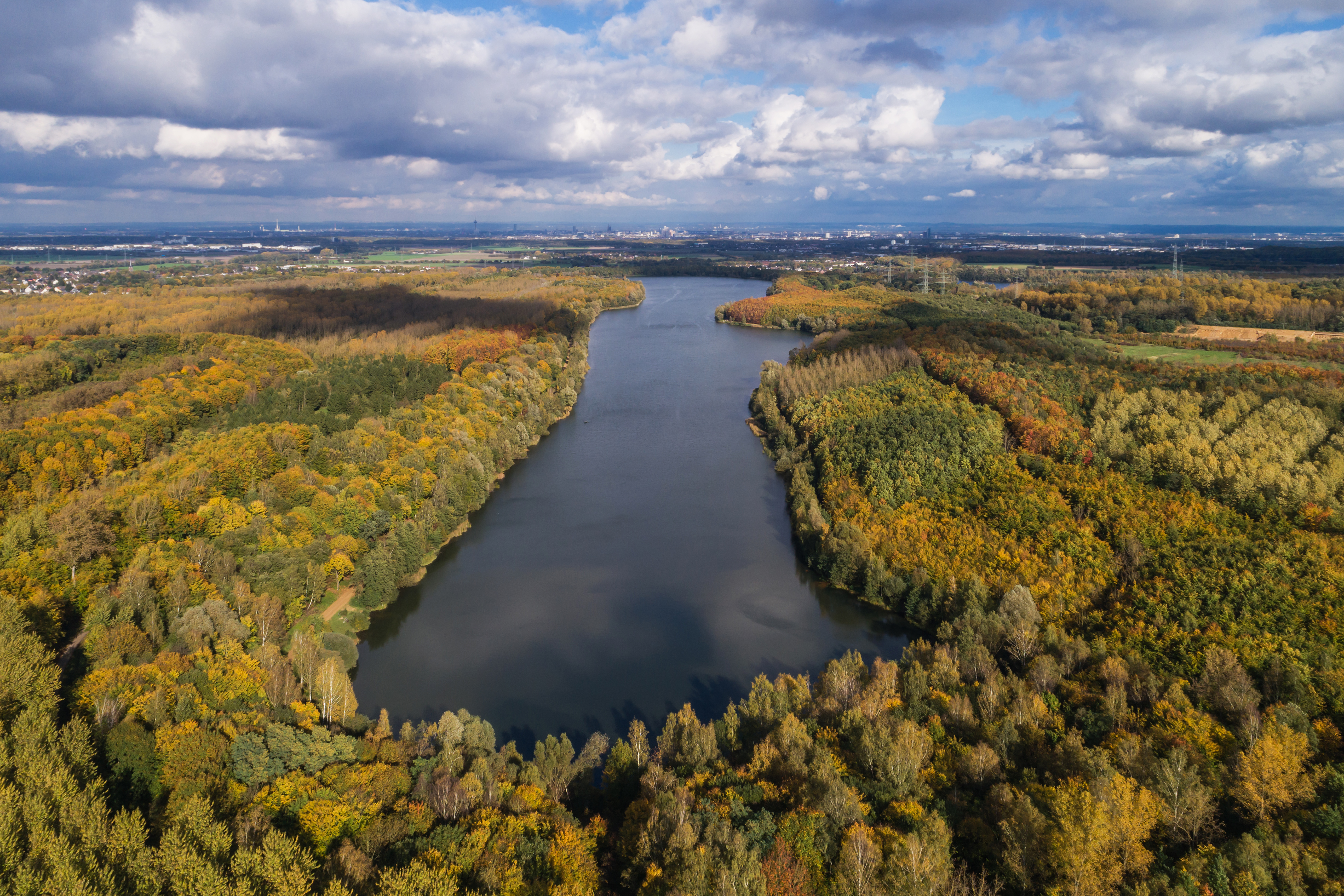 Aerial photo of a lake in Hürth, Rhein-Erft-Kreis (Germany)